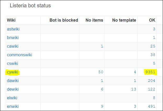 Screen grab (at 30 October 2016) of Magnus Manske's Listeria Bot Status: This shows that the number of Wikidata Lists on the Welsh Wicipedia Cymraeg was 9,351 - 3 times more than all the other 290 language versions of Wikipedia.